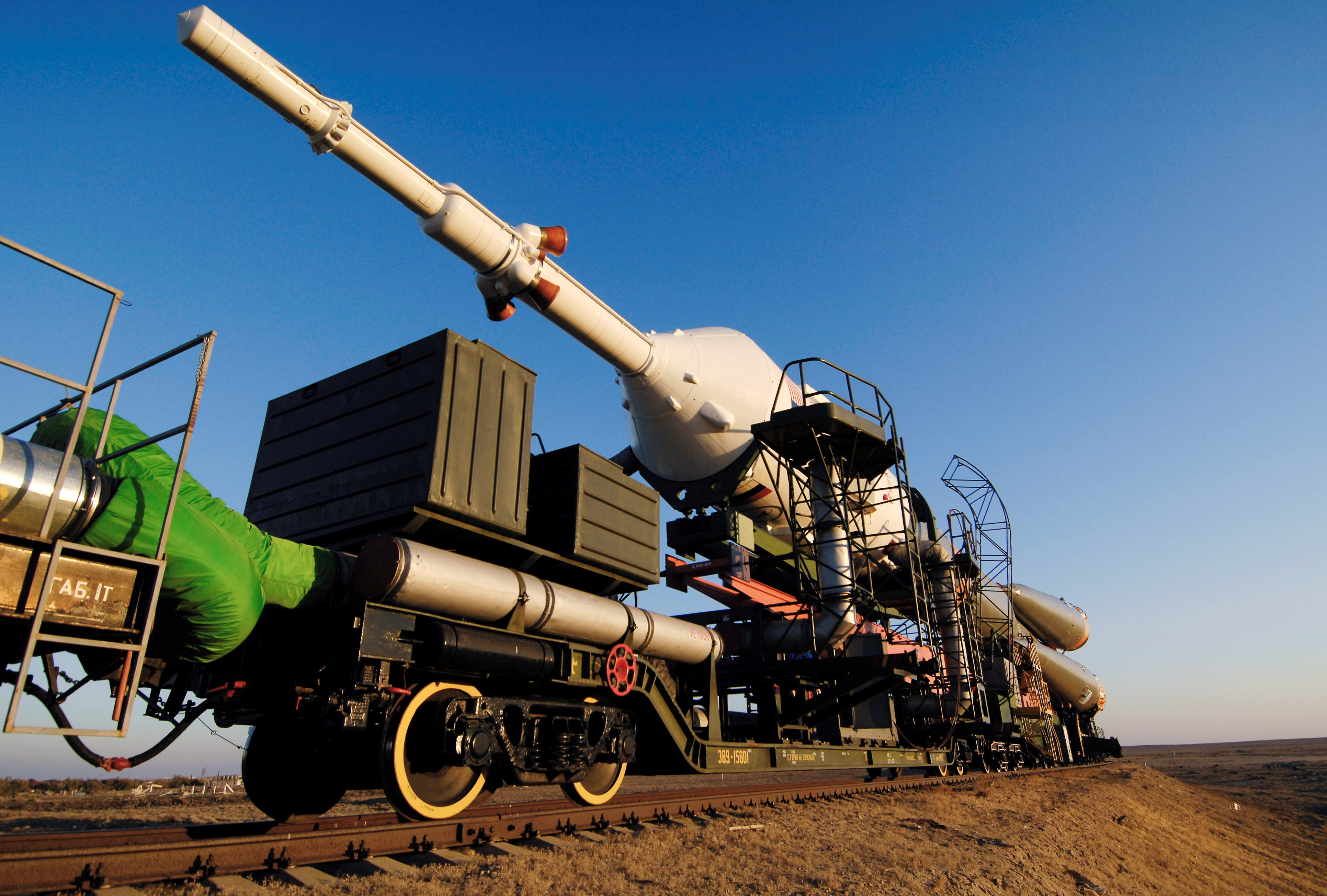 The Soyuz TMA-11 spacecraft was transported by rail car to its launch pad at the Baikonur Cosmodrome in Kazakhstan Oct. 8, 2007 for launch Oct. 10 to carry NASA astronaut Peggy A. Whitson, Expedition 16 commander; cosmonaut Yuri I. Malenchenko, Soyuz commander and flight engineer representing Russia's Federal Space Agency; and Malaysian spaceflight participant Sheikh Muszaphar Shukor to the International Space Station. Whitson and Malenchenko will spend six months on the station. Shukor, who is flying under an agreement between Malaysia and the Russian Federal Space Agency, will return to Earth Oct. 21 with two of the Expedition 15 crewmembers currently on the complex.